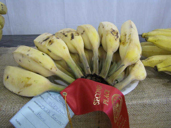 Ice Cream fruit at Maui County Fair Kahului, Maui. October 03, 2009.